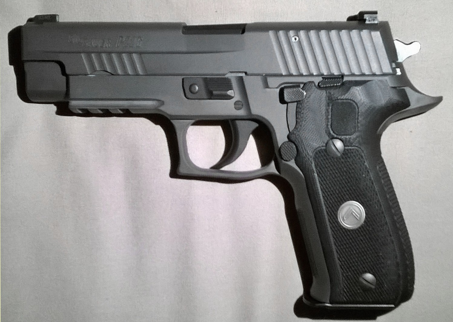 Stock P226 Legion